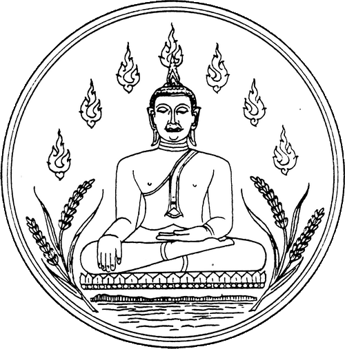 Provincial seal of Phayao province.